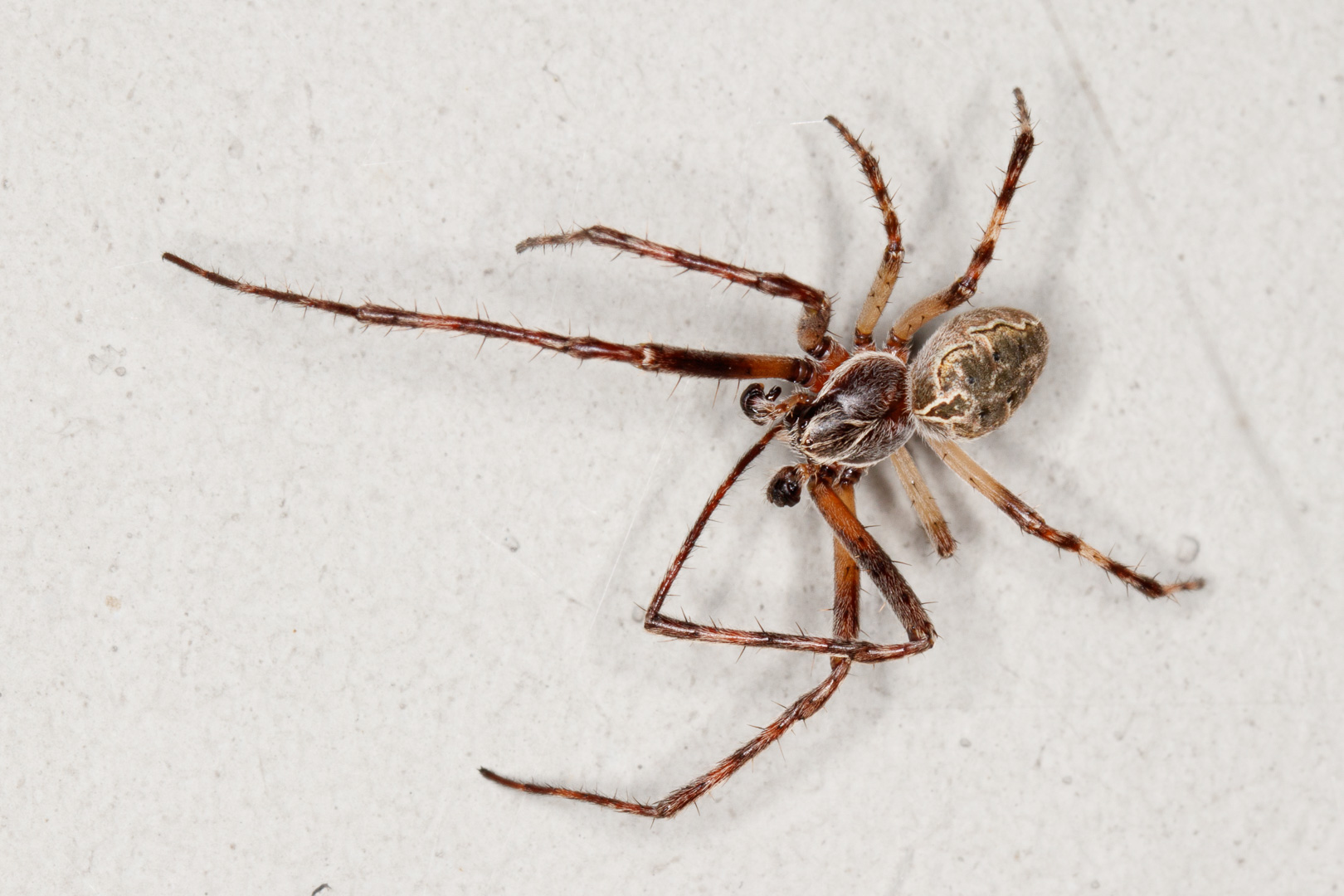 Larinioides sclopetarius - male. Siekierkowski Bridge, Warsaw, Poland.